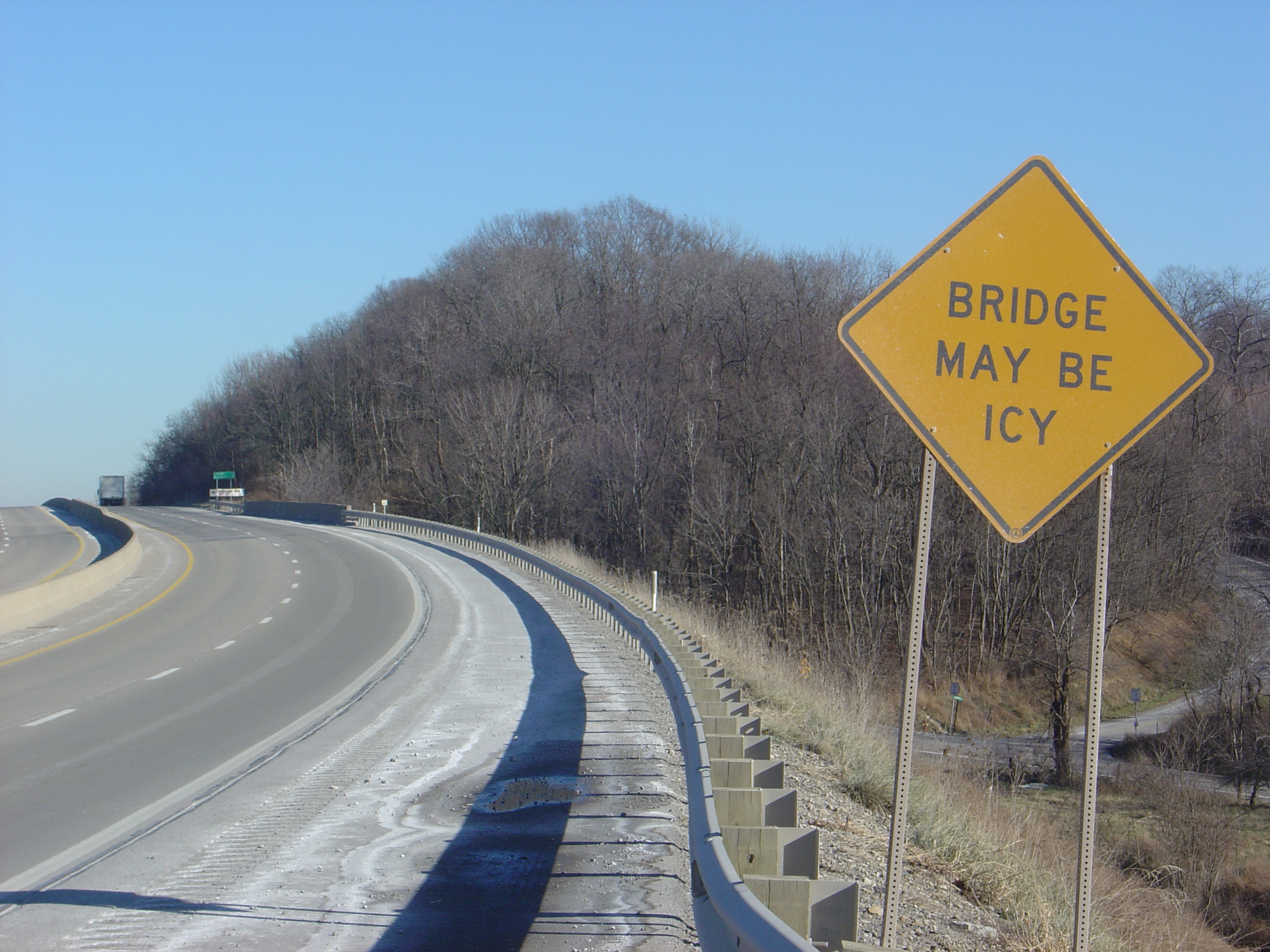 Warning sign by road